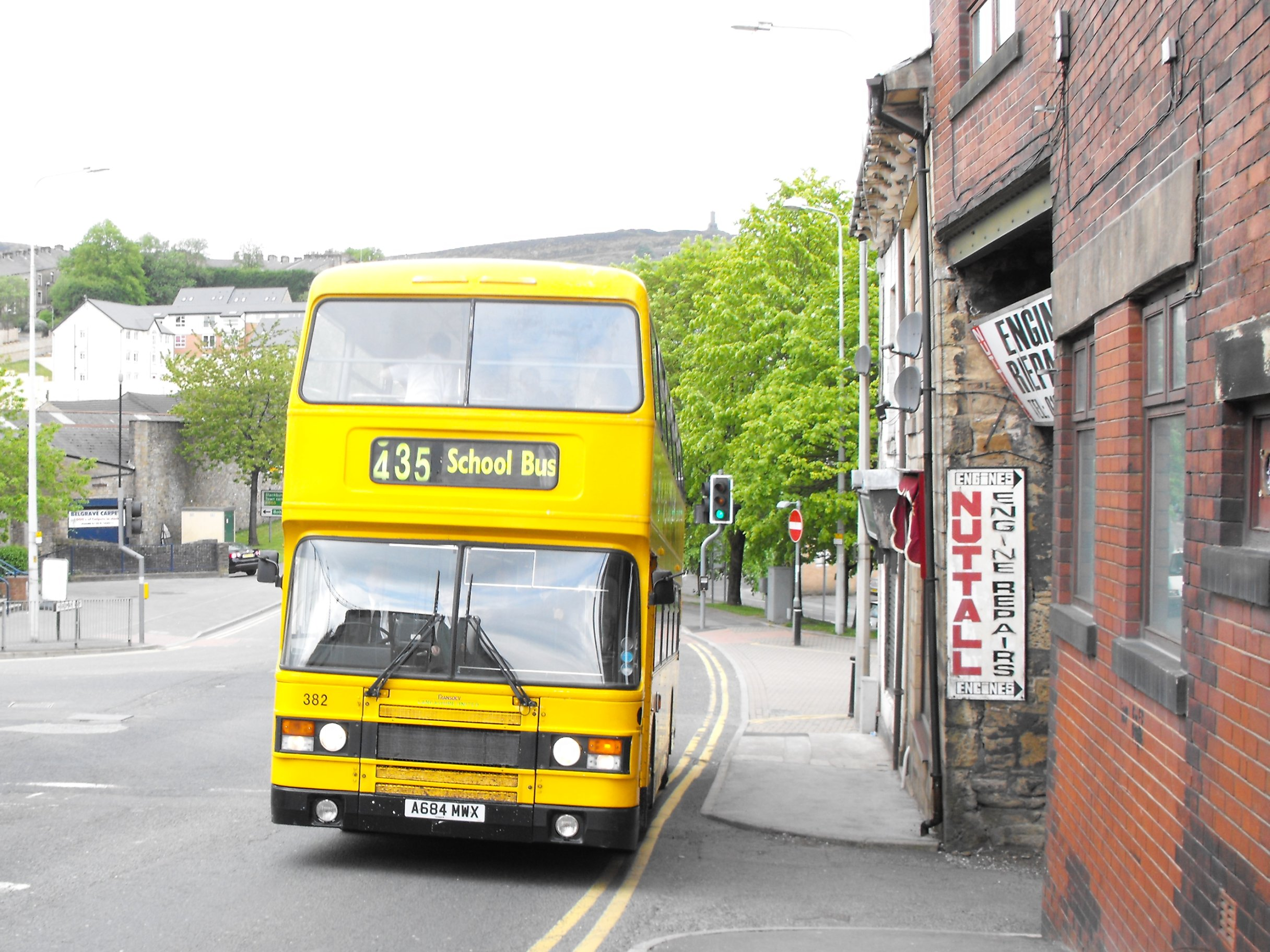 Leyland Olympian Schoolbus of Transdev Lancashire United, Darwen Tower in the background.